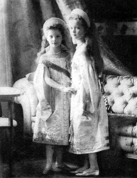 Olga and Tatiana